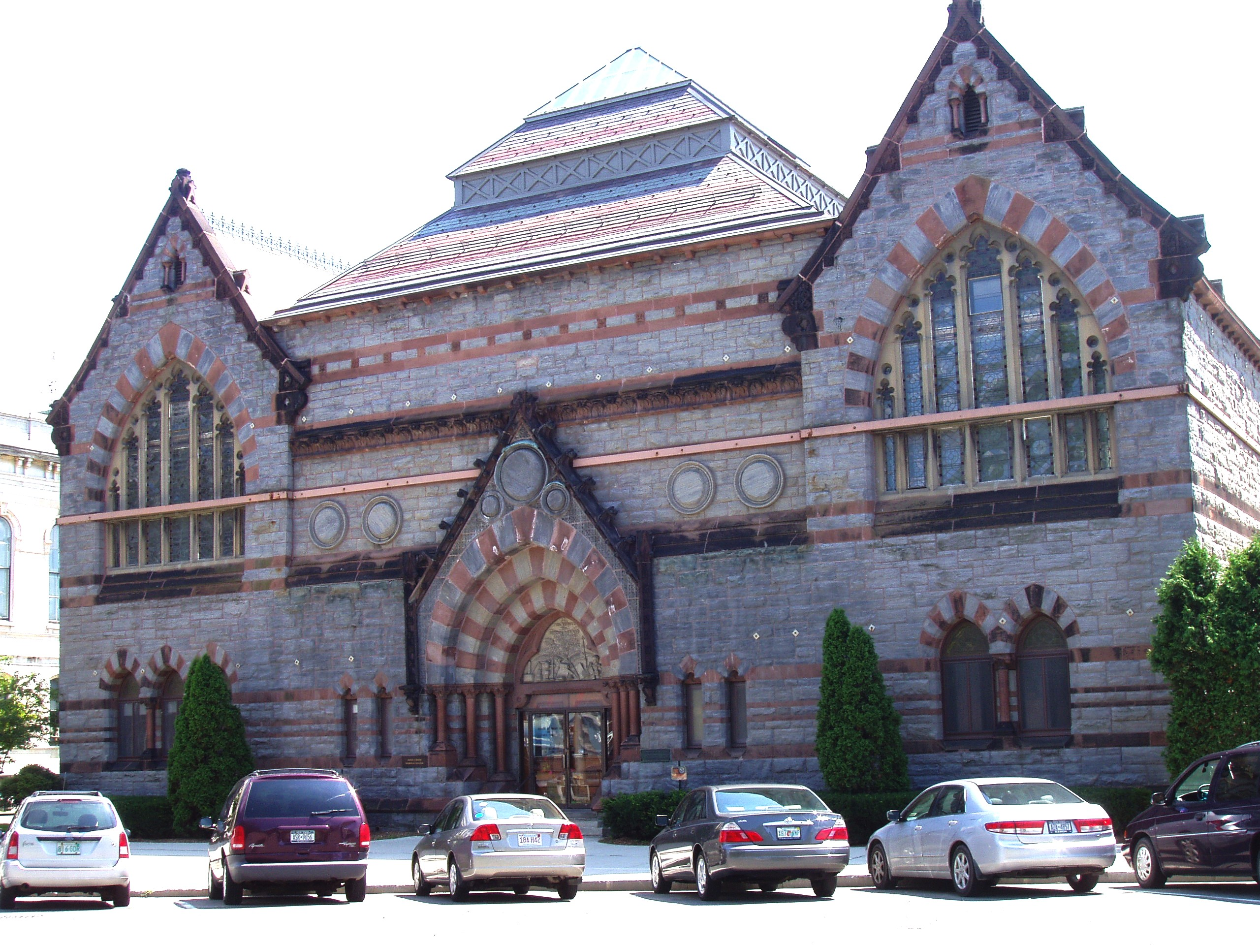 Berkshire Athenaeum (original building, facade) - Pittsfield, Massachusetts, USA.